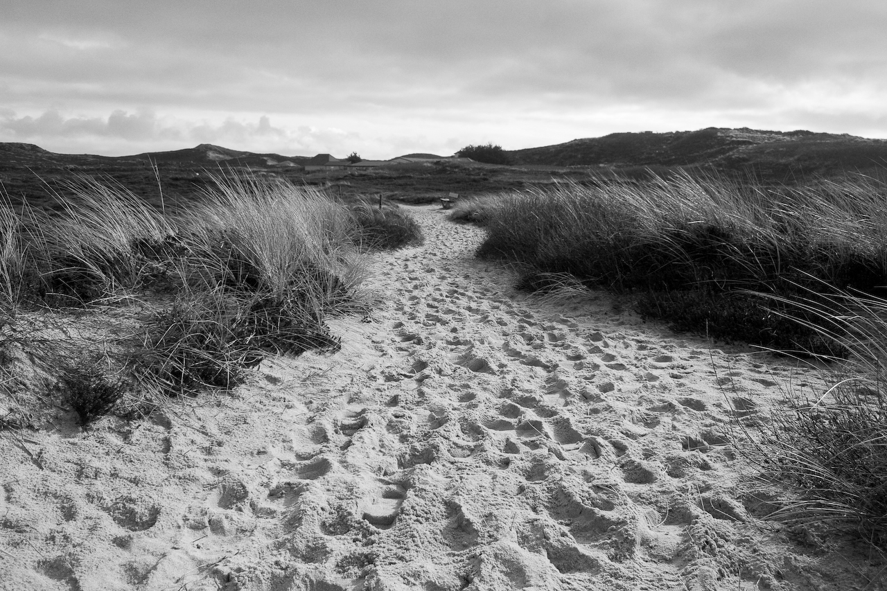 A path to the north sea.